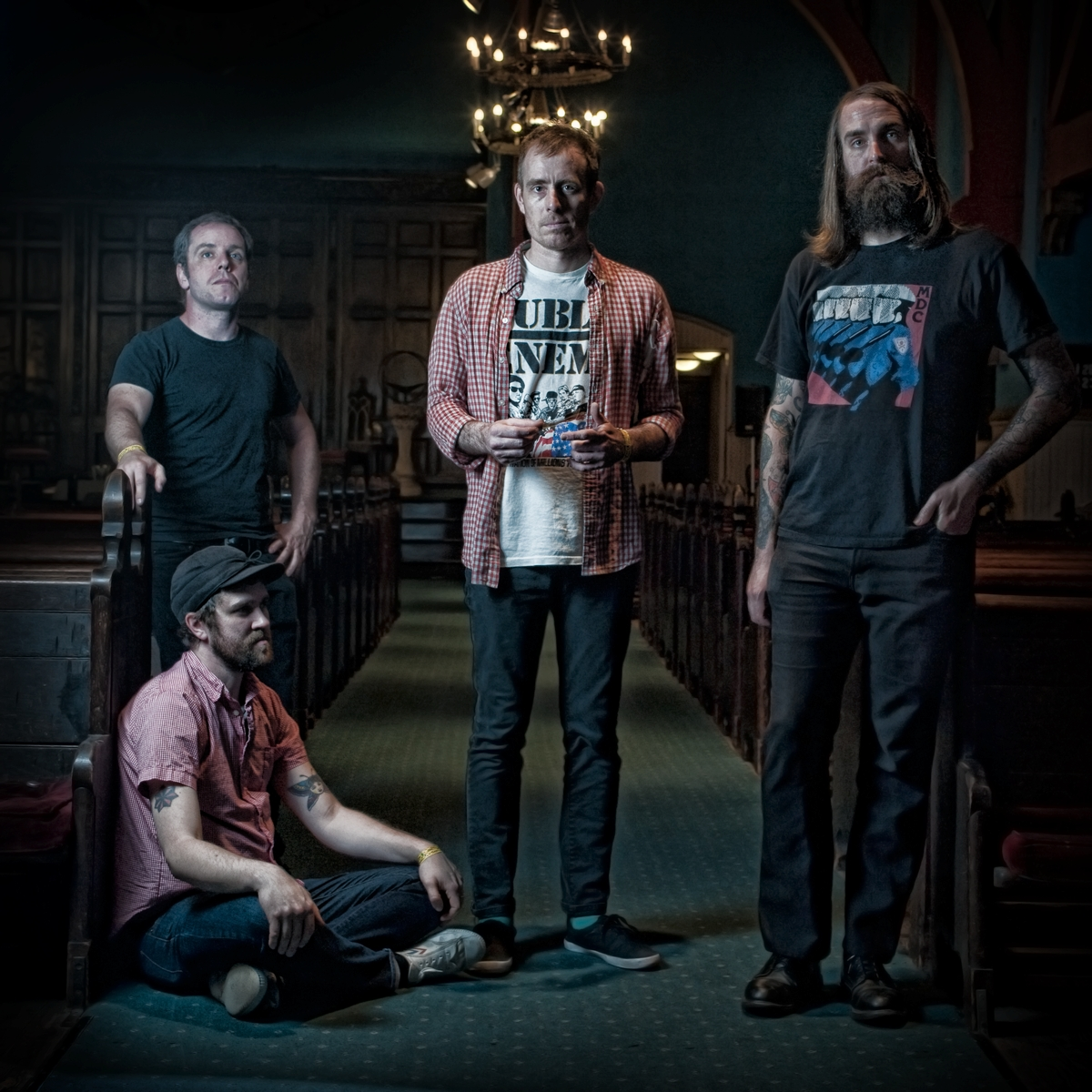 Ted Leo and the Pharmacists